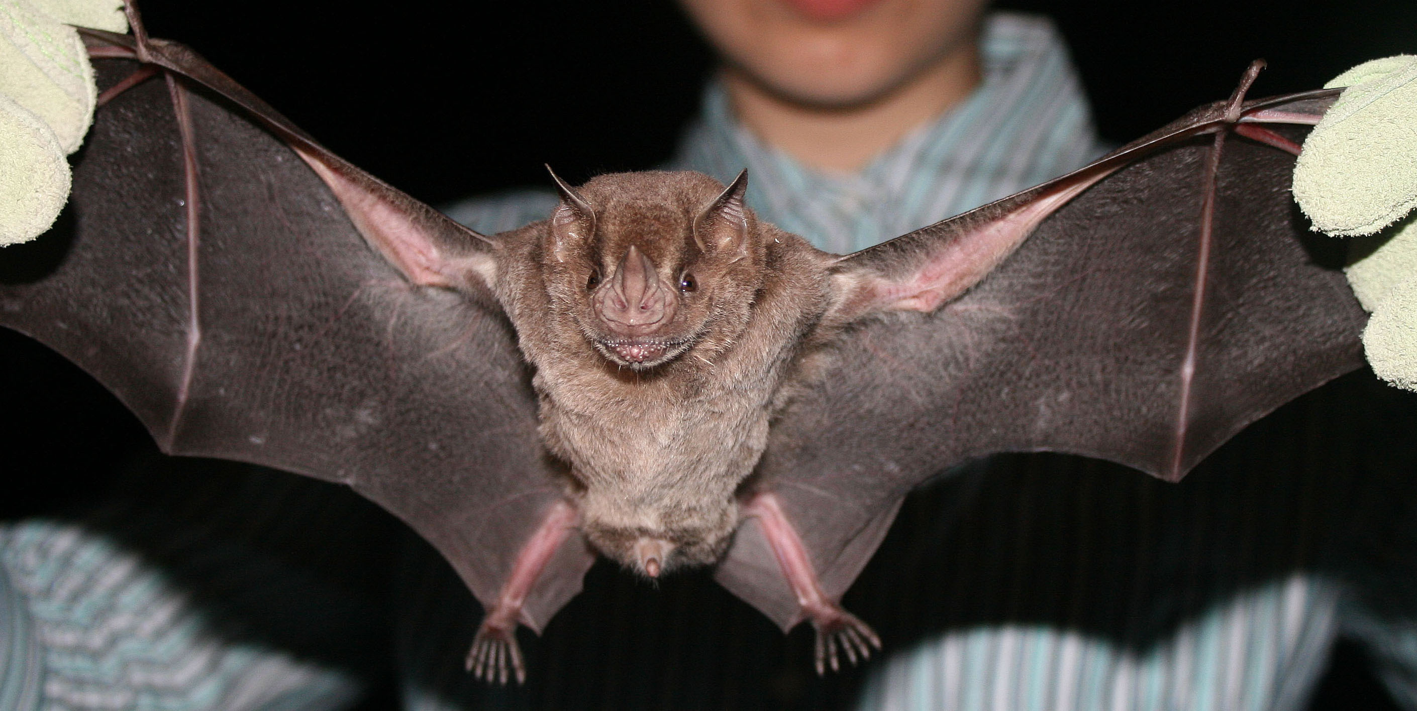 "Artibeus jamaicensis", Jamaican Fruit-Eating Bat